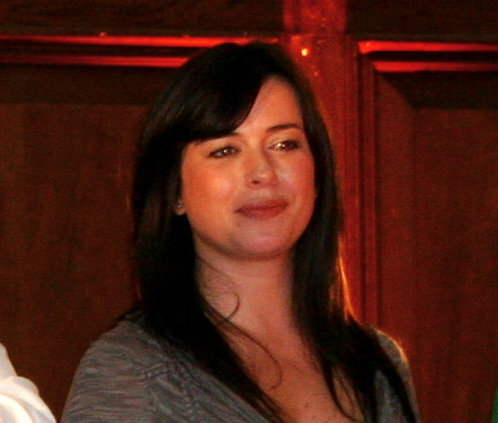 Photo taken of Eve Myles at 'The Rift' a Torchwood convention